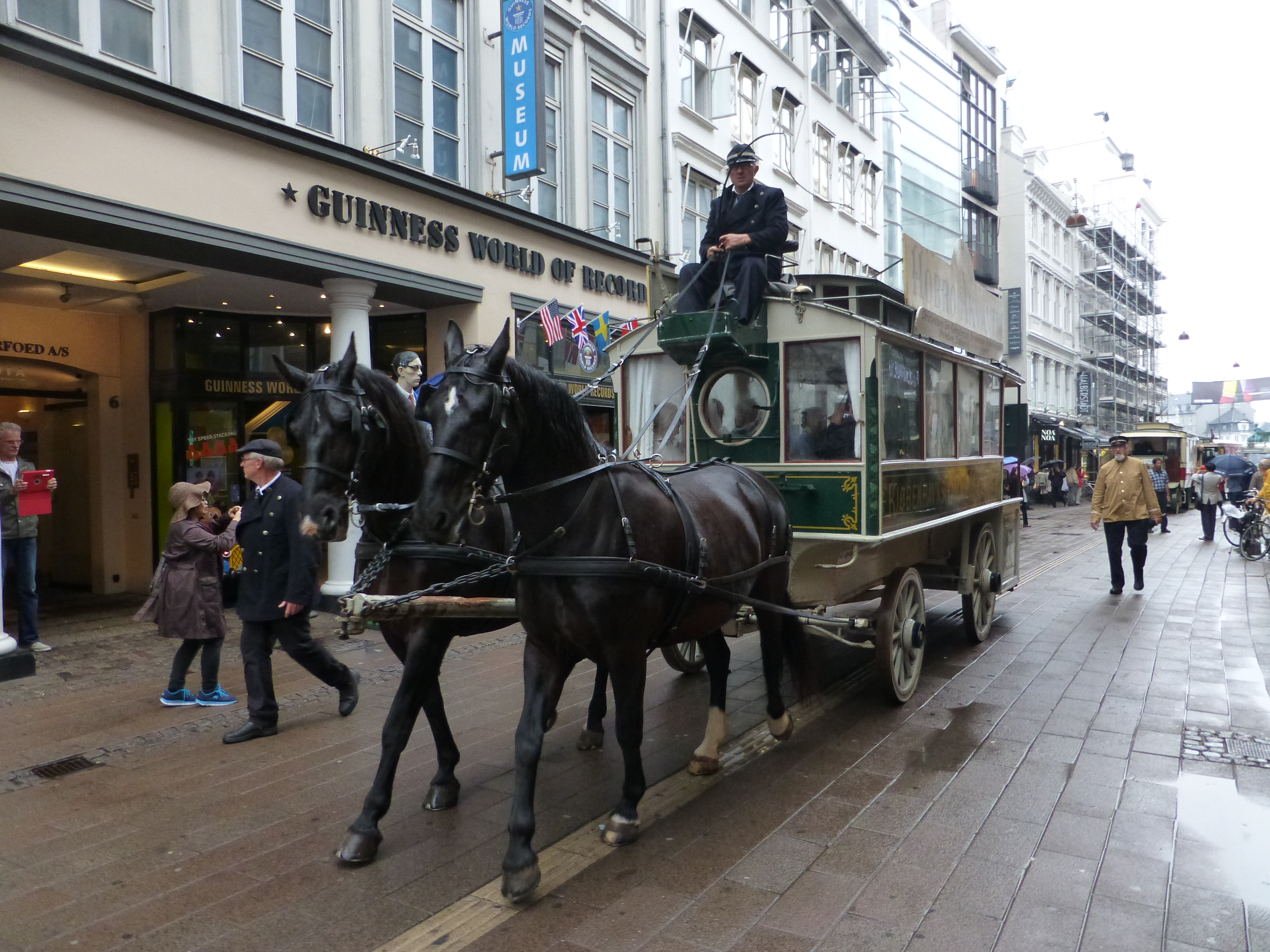 Bus cavalcade with buses from Sporvejsmuseet Skjoldenæsholm on the pedestrian street Strøget in Indre By in Copenhagen due to celebrating 100 years with motor buses in Copenhagen. KO 17 from 1897 on Østergade.